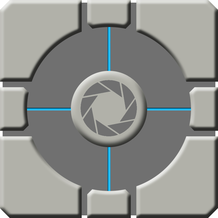 Logo of Aperture Science company. Derived from ":Image:Aperture Science.svg" by VernerVernerio.